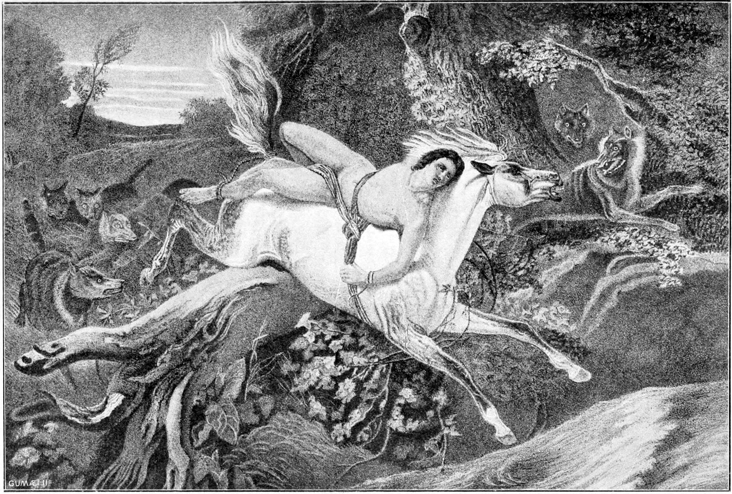 Illustration in Alfred Jensens "Mazepa" (1909), page 59, after a oilpainting by Horace Vernet "Mazeppa and the Wolves" from 1826